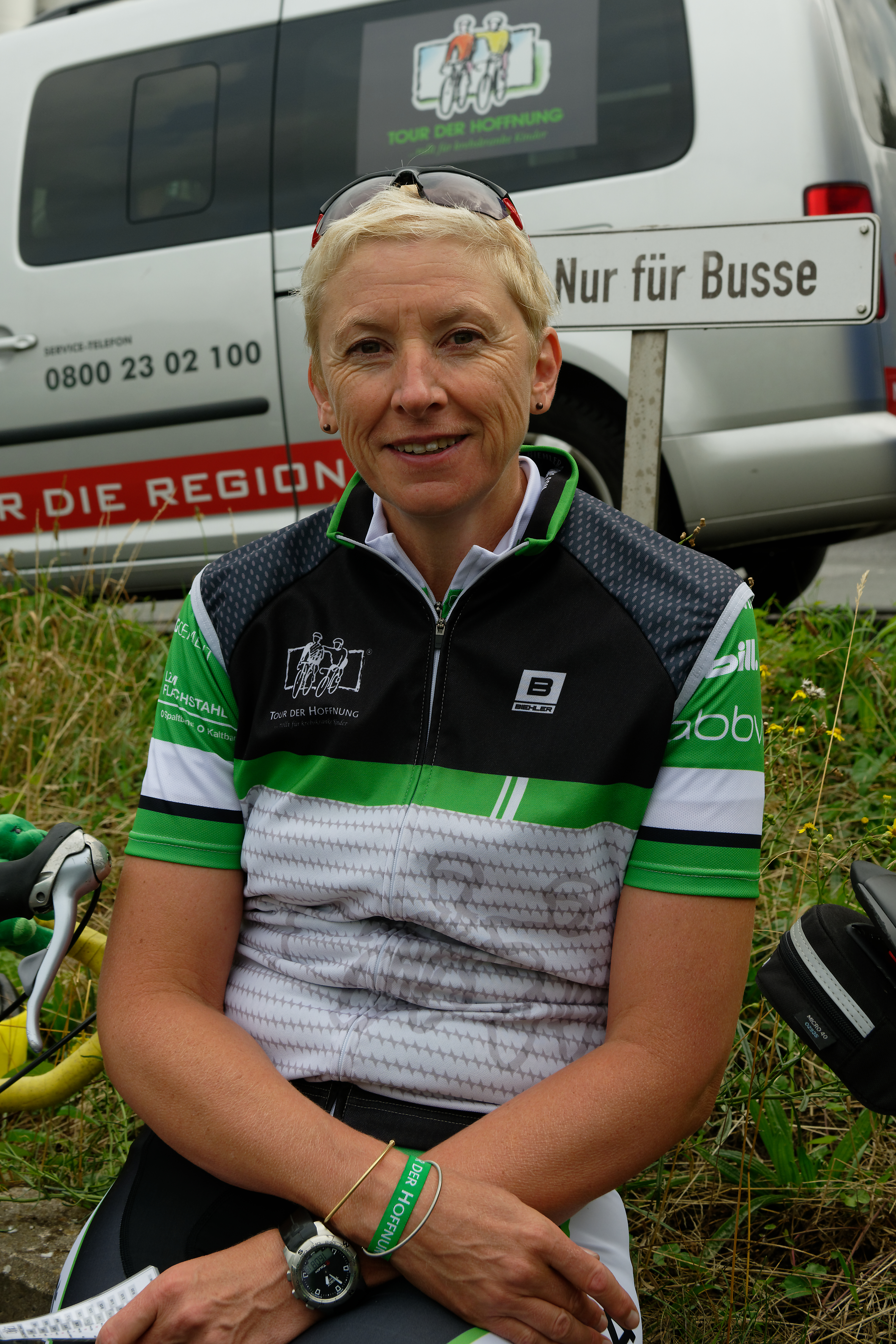 Petra Behle in 2019